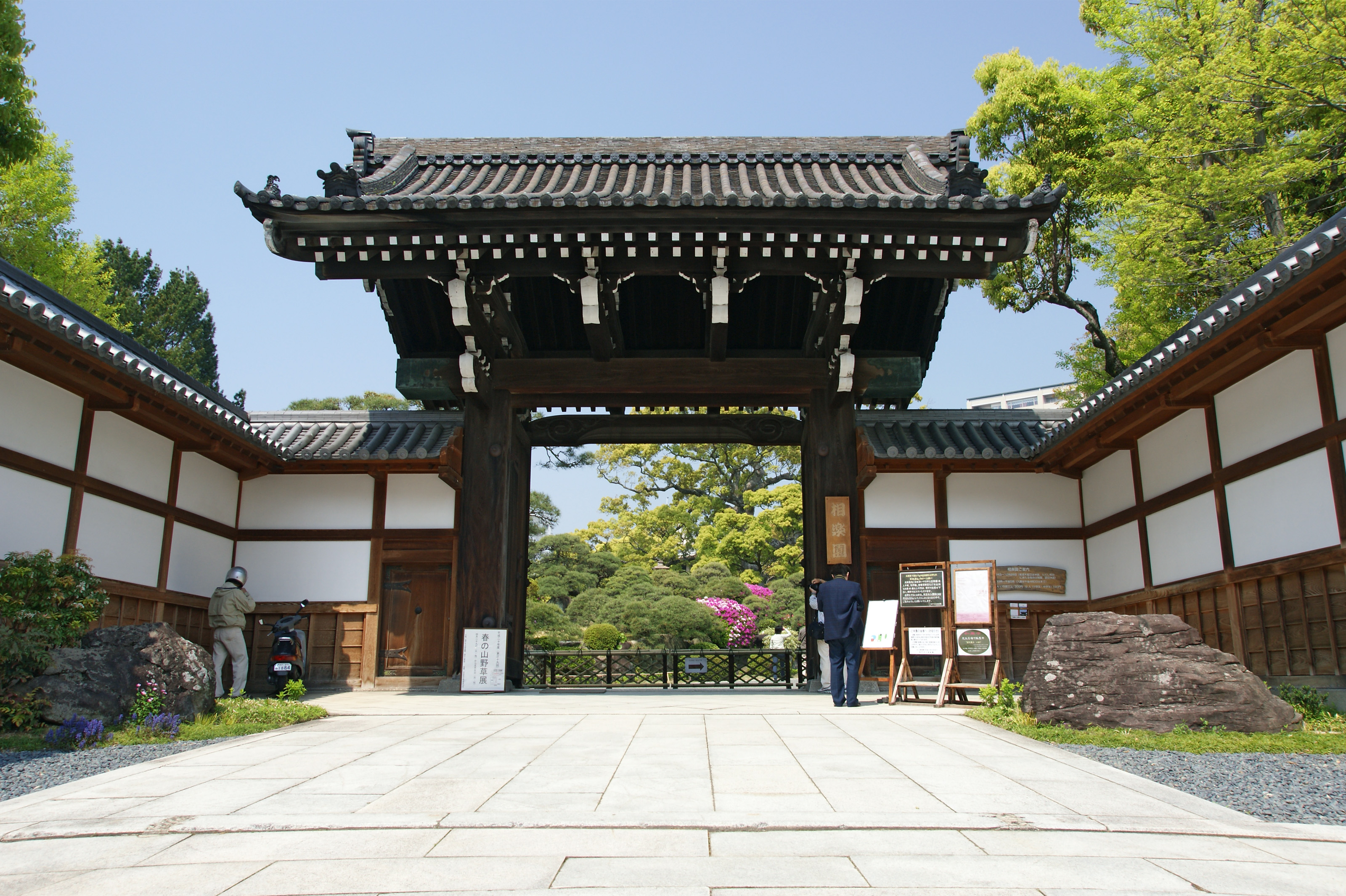 Sorakuen in Kobe, Hyogo prefecture, Japan